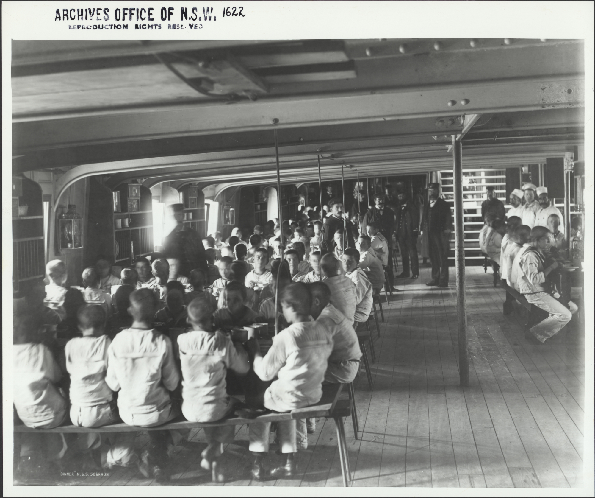 Title: Meal time on the N.S.S. 'Sobraon' On the 8th November 1892 the Sobraon replaced the Vernon as the Industrial School for Boys training ship. The Sobraon was three times the size of its predecessor and by 1893 it averaged 263 boys over the year. By July 1911 the last of the Sobraon boys were rehoused at the Mittagong Farm Home for Boys and the Brush Farm Home for Boys and the Sobraon was abandoned. Dated: 11/08/1893 Digital ID: 4481_a026_000972 Rights: No known copyright restrictions We'd love to hear from you if you use our photos/documents. Many other photos in our collection are available to view and browse on our website using Photo Investigator.